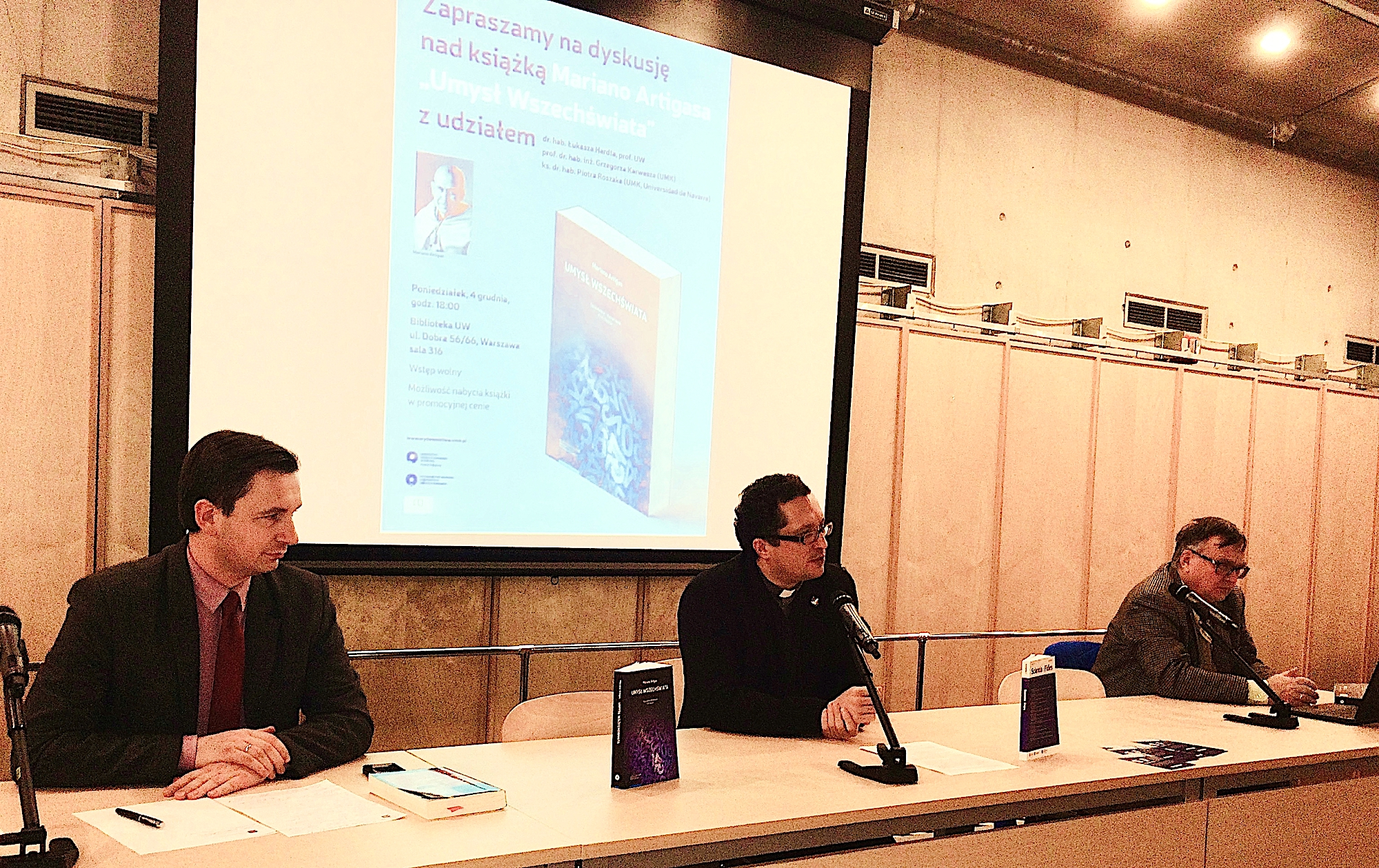 Presentation of Artigas book in Warsaw on 4.12.2017